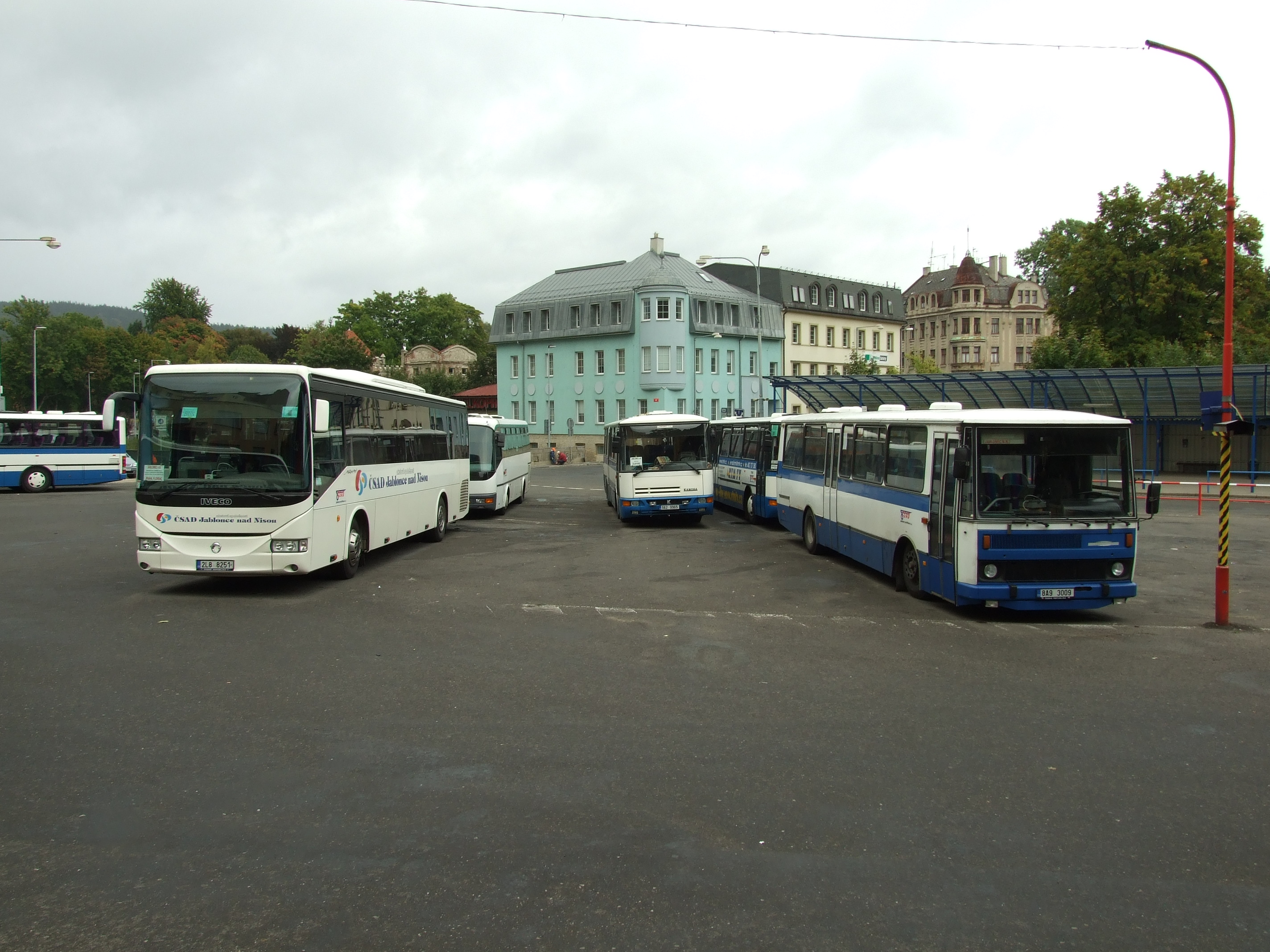 Buses in Jablonec nad Nisou, intercity coaches. Liberec region, CZhelp